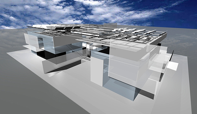 Office Building at Kifissia, Athens